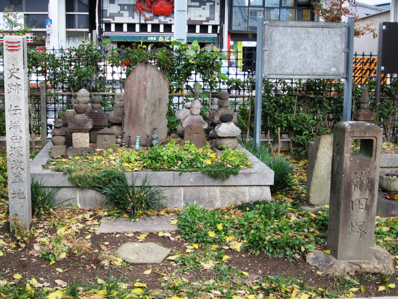 Oda-zuka in Gifu, Gifu.